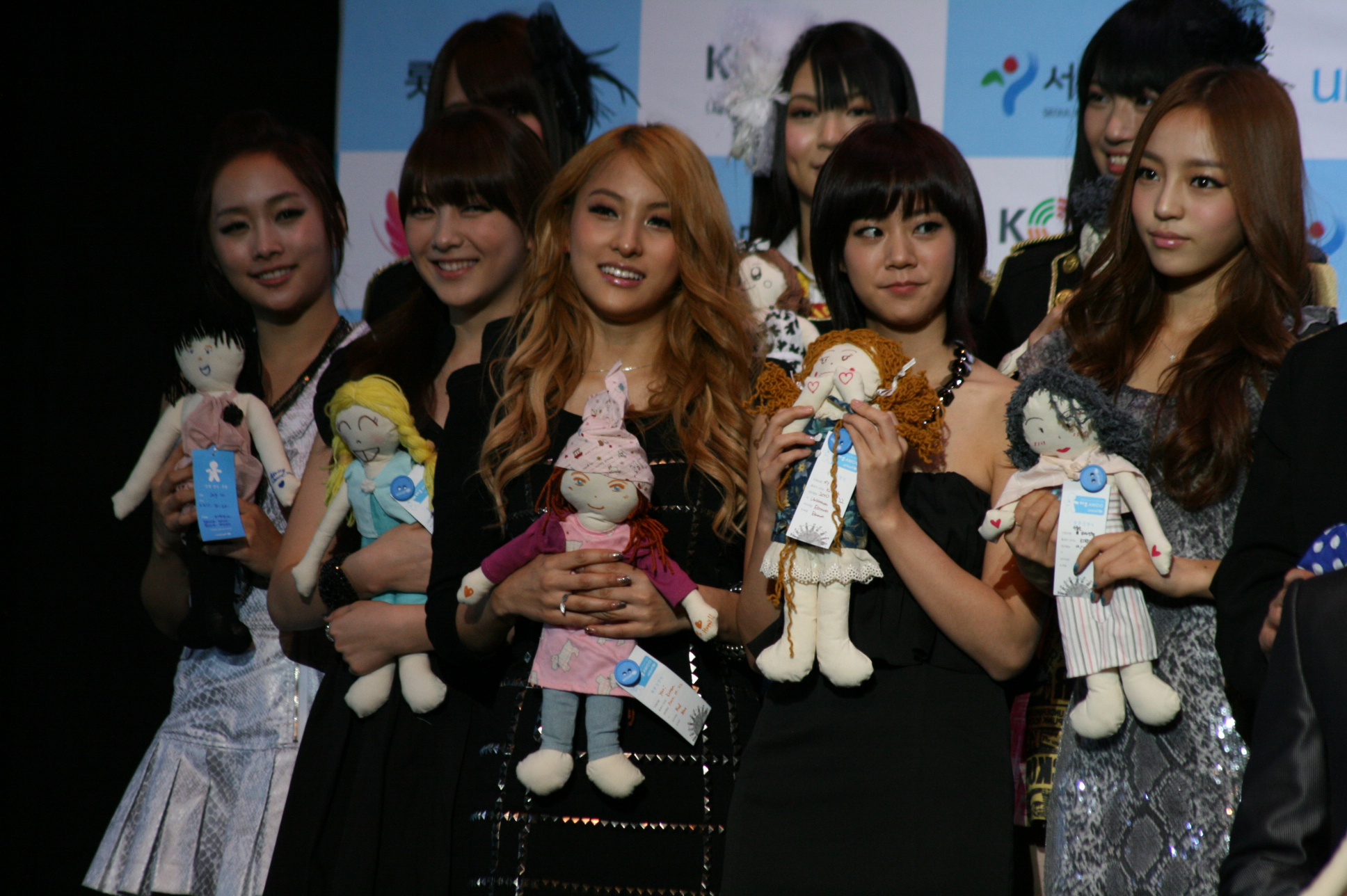 South Korea girl Group Kara in 2010 Asia Song Festival News conference.